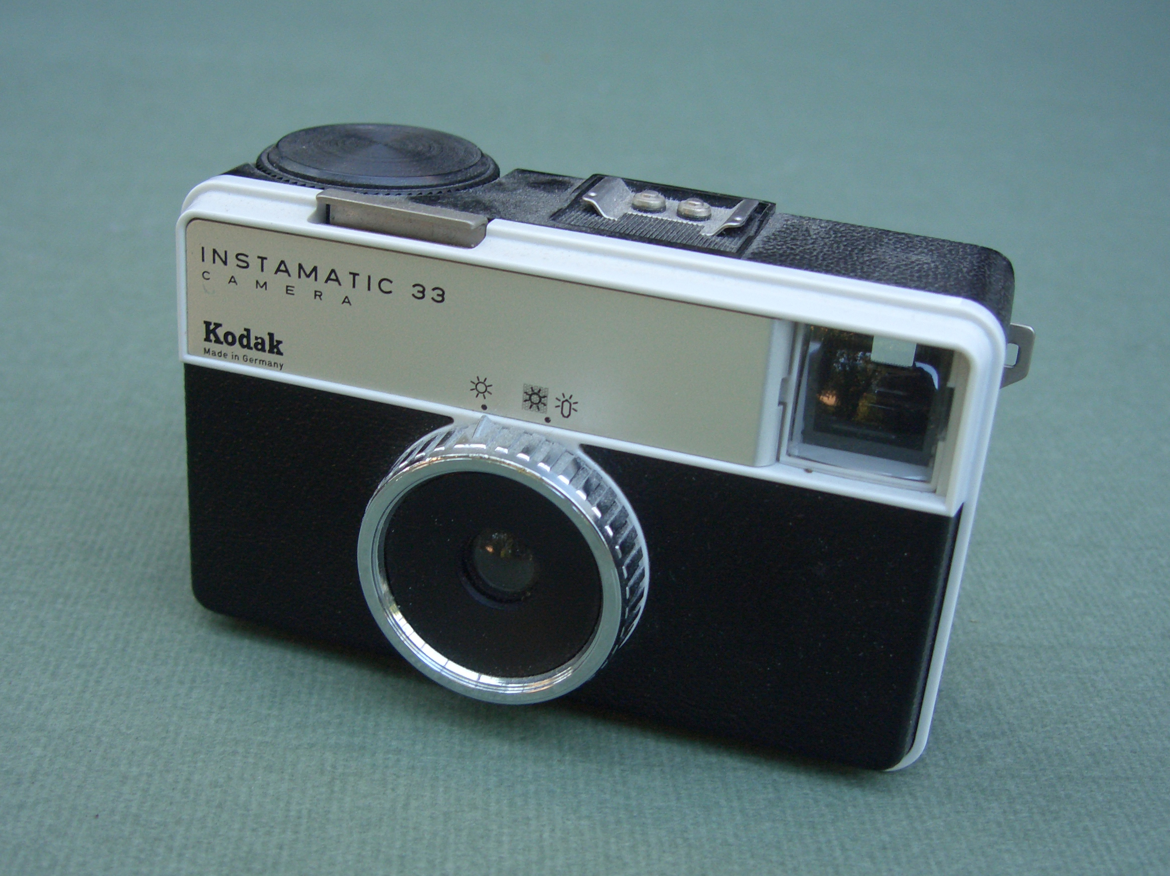 Kodak camera designed by Kenneth Grange Photo: Christos Vittoratos